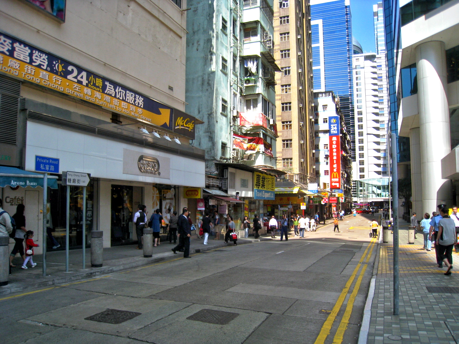 Tong Chong Street 糖廠街